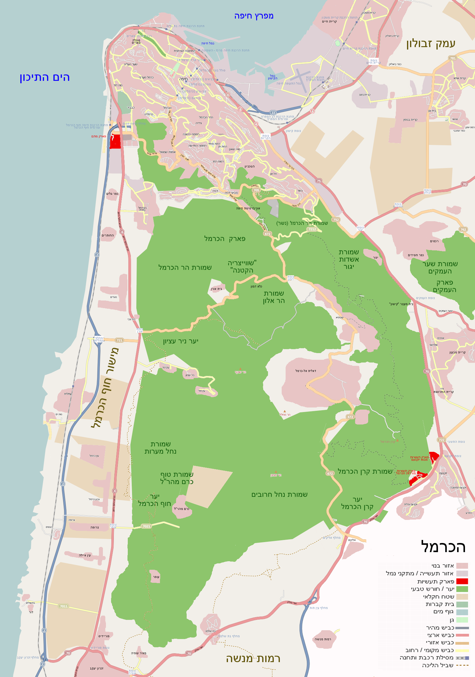 map of the Carmel